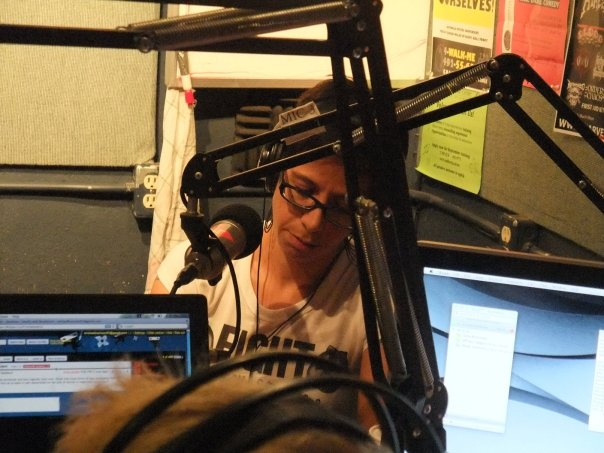 Desiree Schell at the CJSR radio studio broadcasting the Skeptically Speaking show.